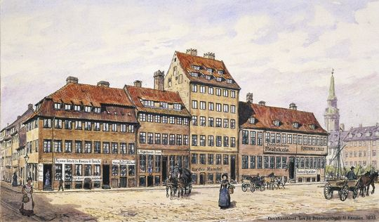 The row of houses along the south-west side of Christianshavns Torv un Copenhagen, Denmark. The house to the right contained the local police station (and was known as Jacob Bastians Købmandsgård)